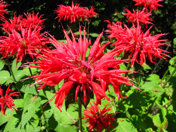 Photo of Bee Balm Plant (Monarda)